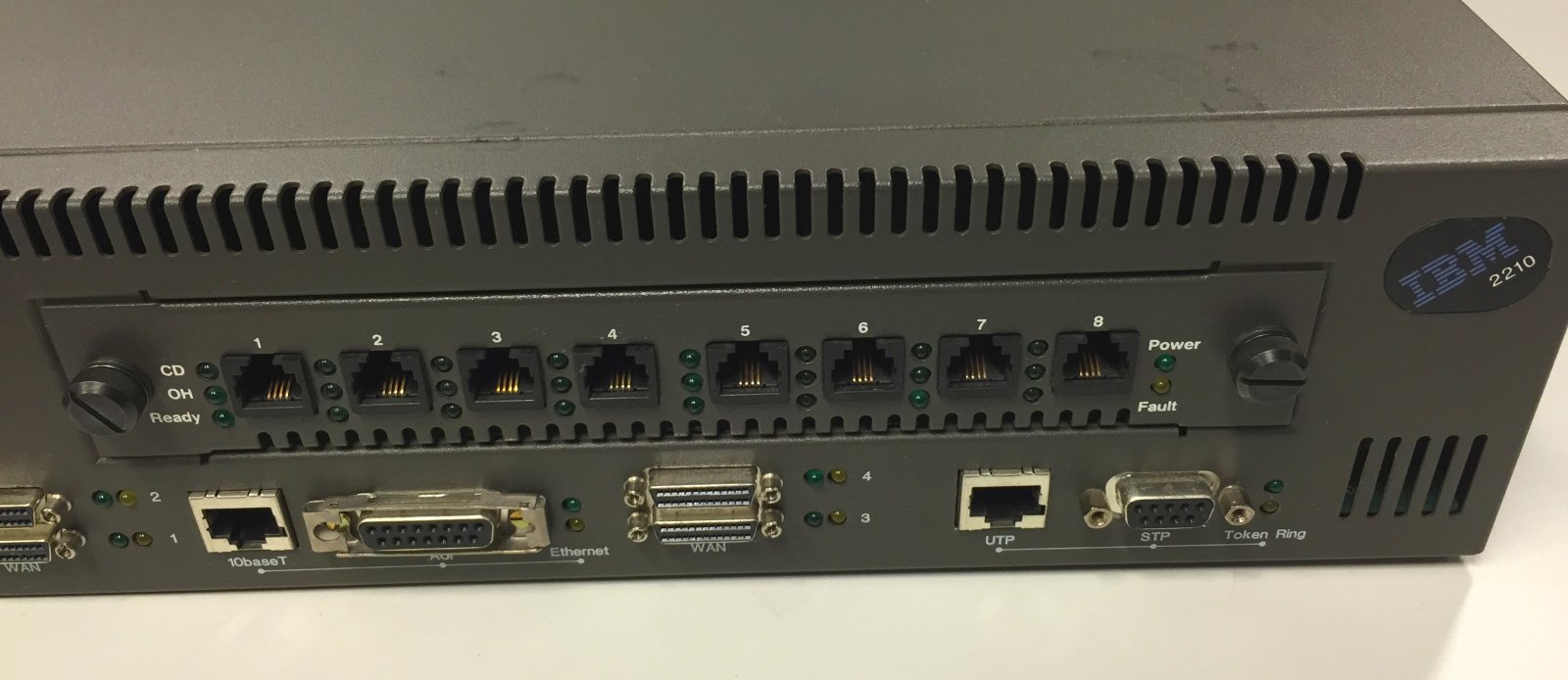 Token ring and Ethernet interfaces as found on the IBM 2210-24M Multiprotocol Router.